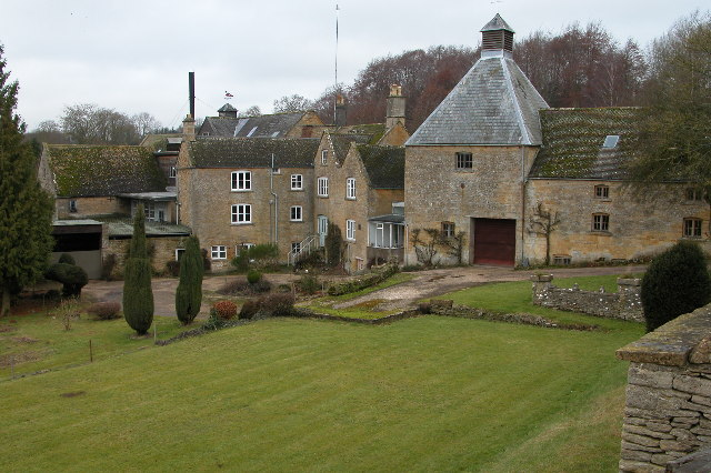 Donnington Brewery. The brewery was founded in 1865 in the mill by Thomas Arkell and is still run by a descendant.